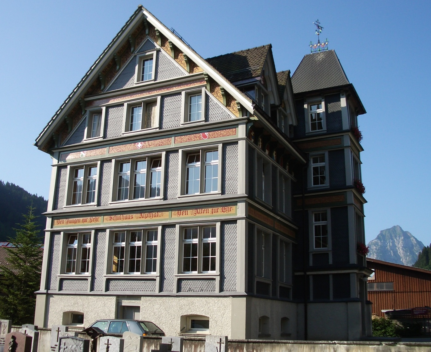 Alpthal SZ, Switzerland self-made, July 2006